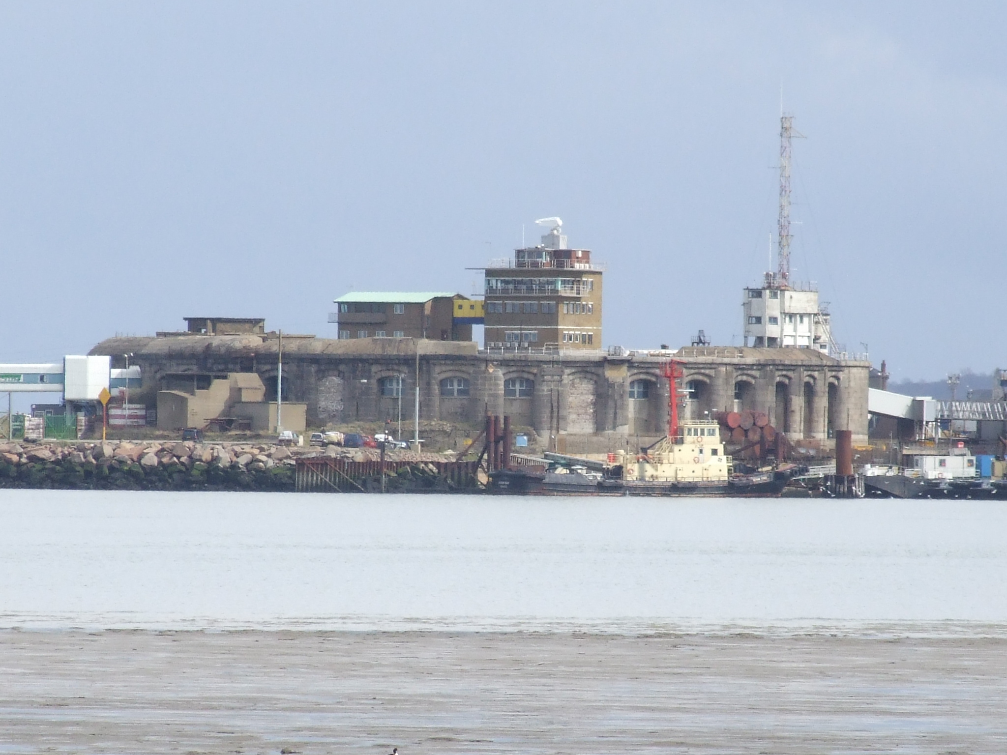 Grain, Kent in the civil parish of Isle of Grain, is a village on the Hoo Peninsula. The fort at Garrison point, Sheerness from Grain, on the far bank of the River Medway.